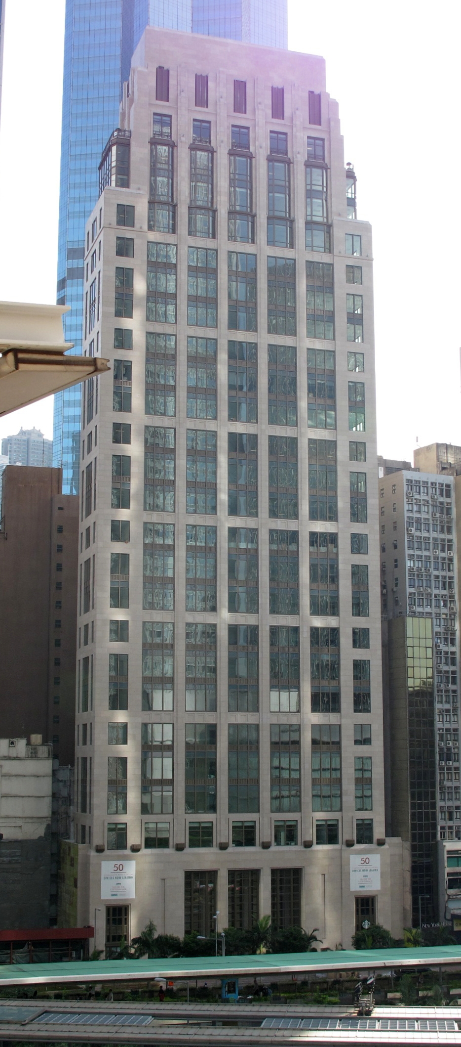 50 Connaught Road Central